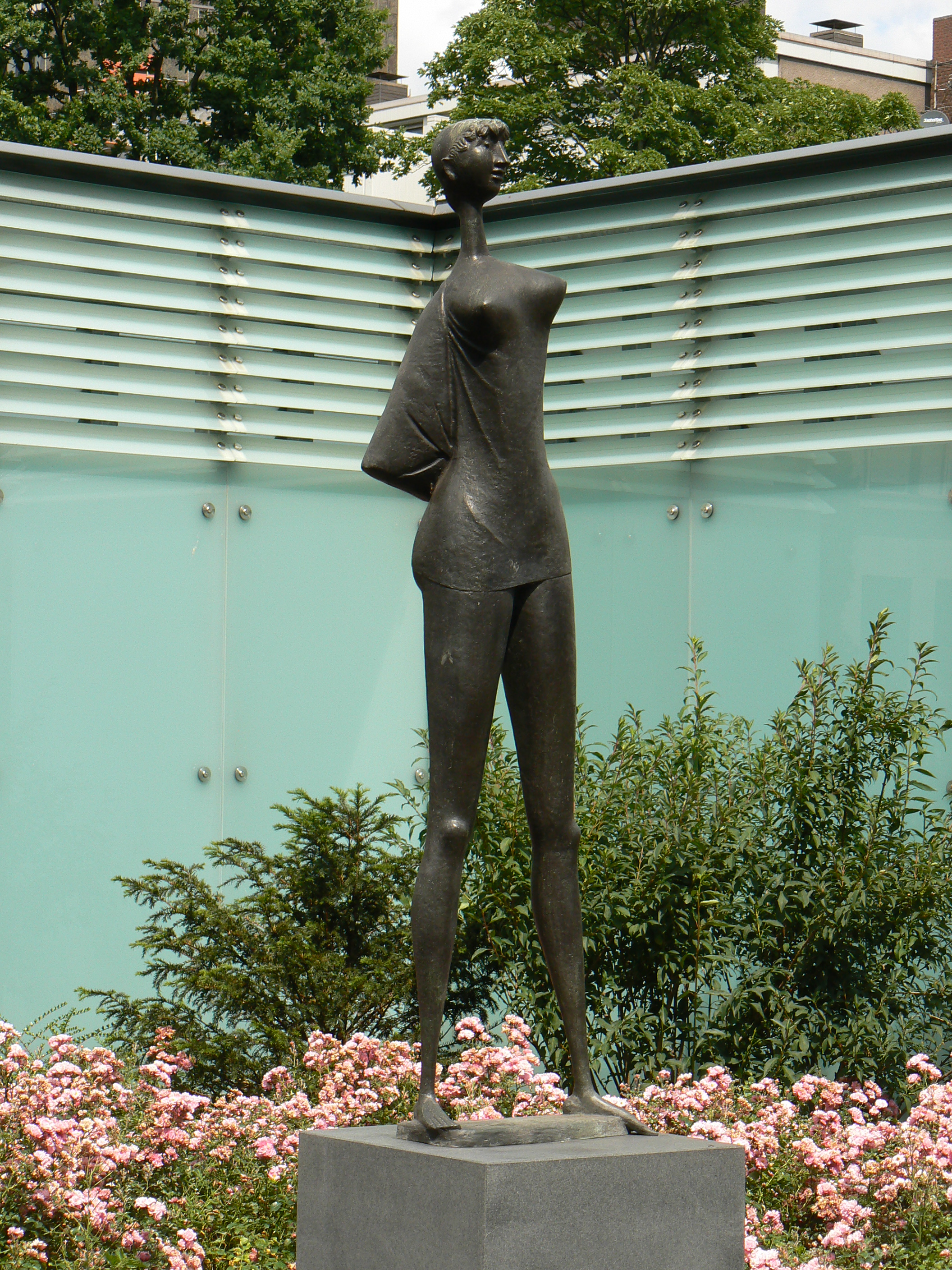 Sculpture Tristina (1960) by Marcello Mascherini in Duisburg/Germany